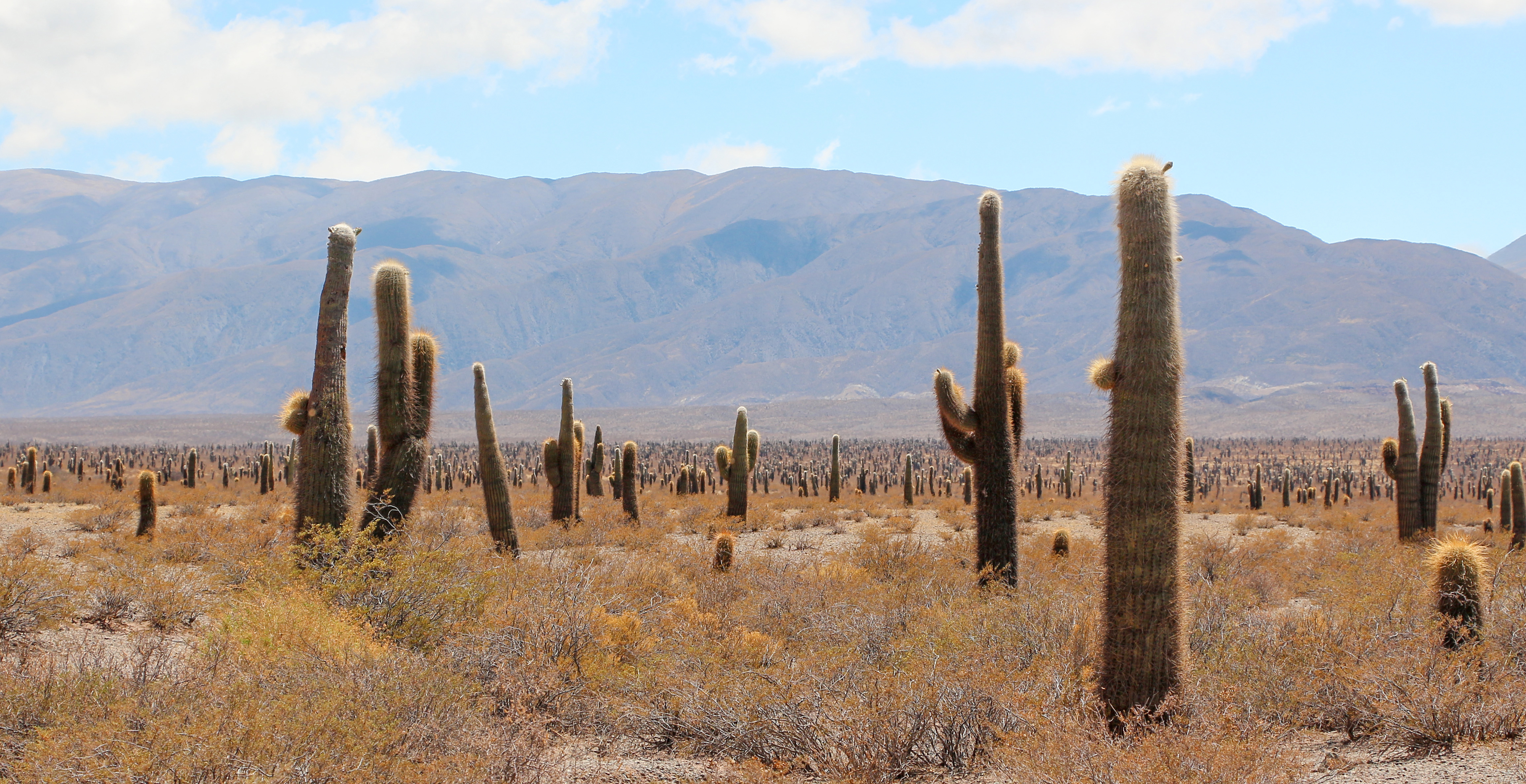 Los Cardones National Park, Argentina